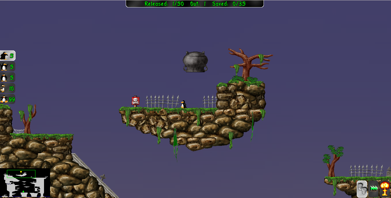 This is screenshot of Halloween 2011 levelset of pingus